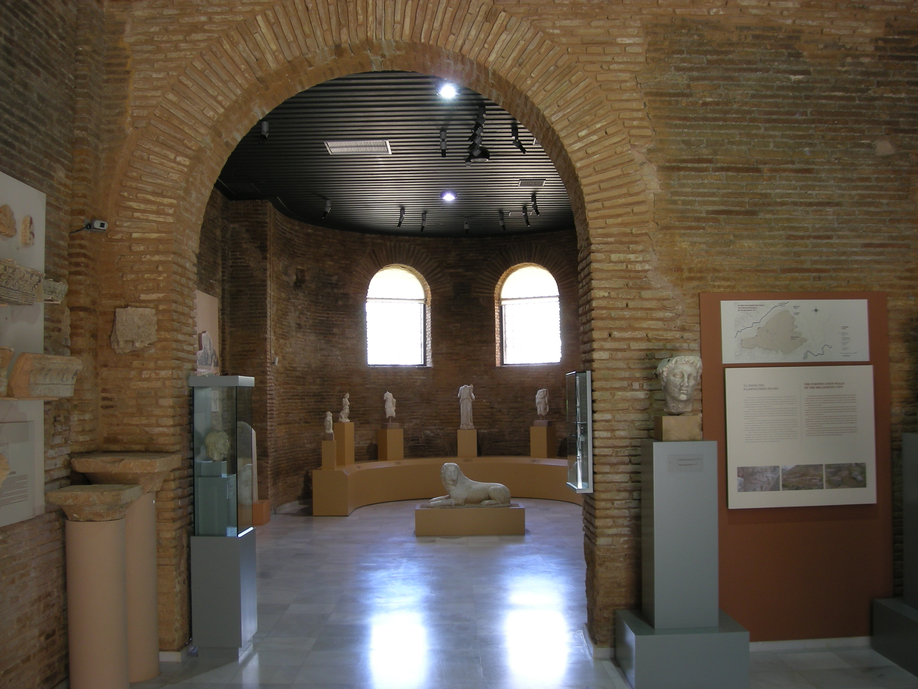 Museum of Sikyon, situated in the building of an ancient Roman bath